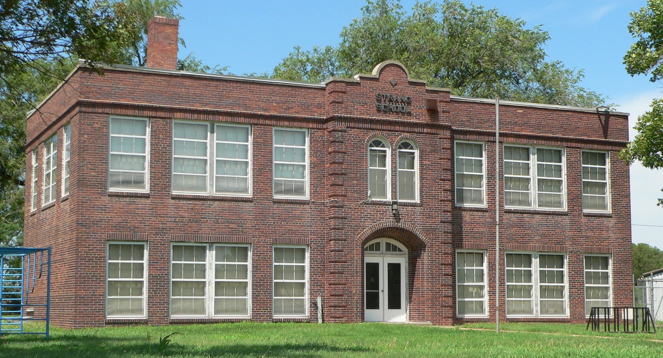 Strang School District No. 36 in Strang, Nebraska; seen from the southeast. The Renaissance Revival building was constructed in 1929. It is listed in the National Register of Historic Places. The playground equipment is part of the historic-site listing.